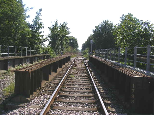 Railway Track A footpath crosses the Marshlink single track railway line close by the Mill. This is the view looking towards Winchelsea.